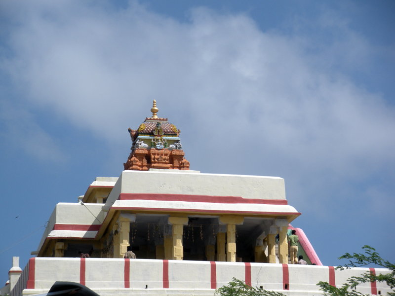 Ramarpadam Temple, Rameswaram